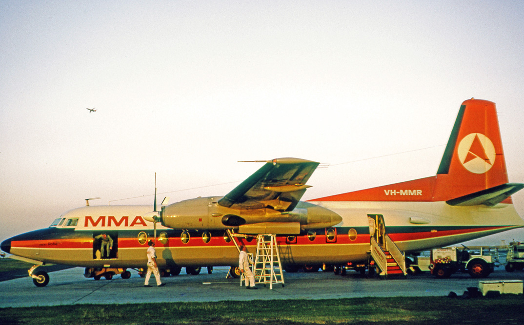 MacRobertson Miller Airlines Fokker F.27-200 Friendship at Melbourne Essendon Airport in 1971